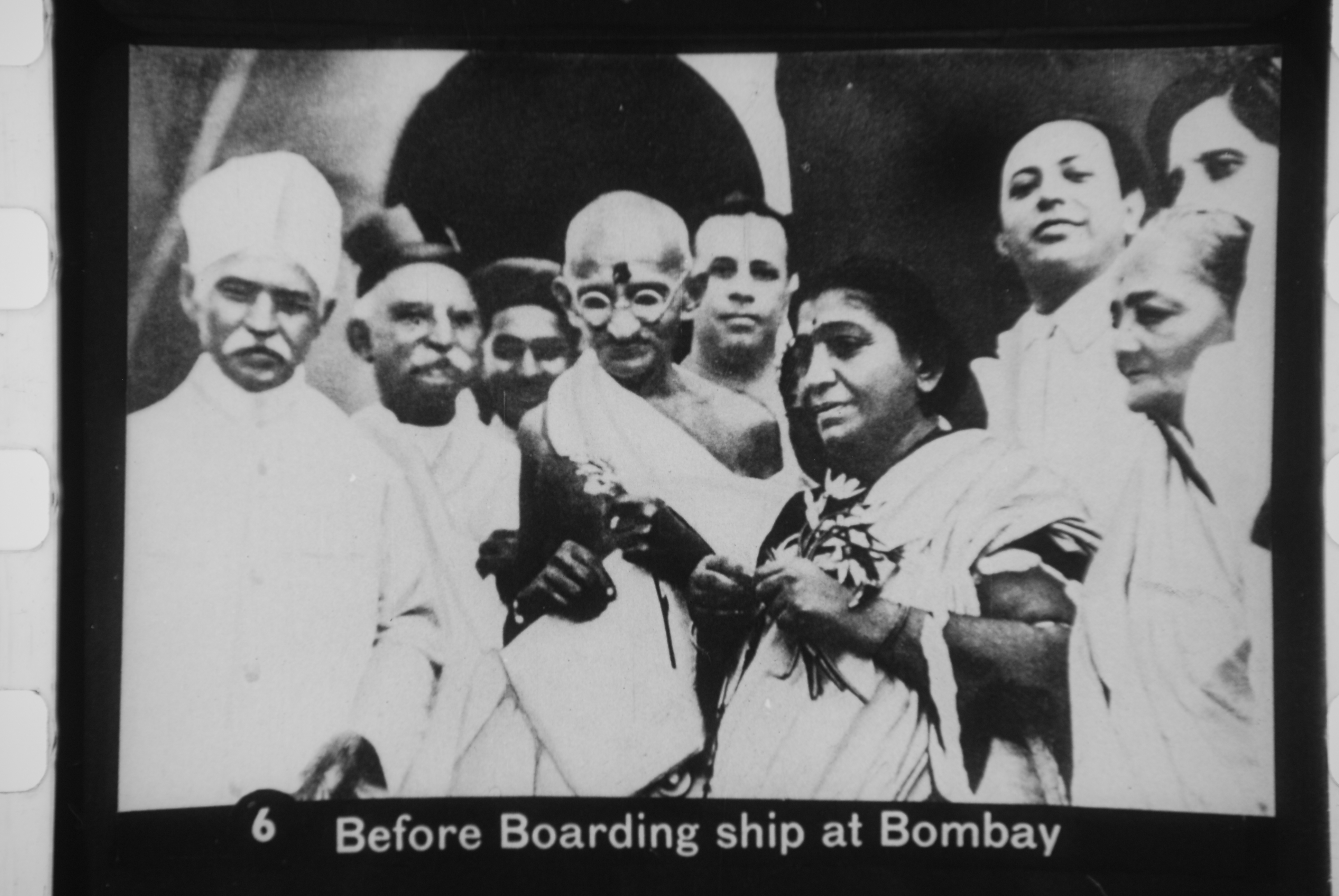 Gandhi with Sarojini Naidu before boarding ship at Bombay, going to London, September 1931.